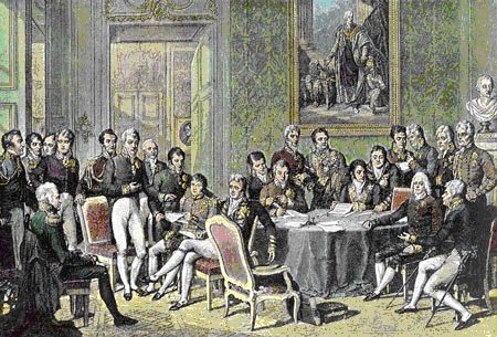 The Congress of Vienna, 1814